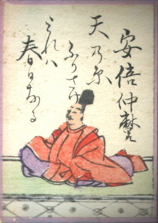 A portrait of Abe no Nakamaro; illustration from an uta-garuta playing card for Hyakunin Isshu, created in the Edo period.